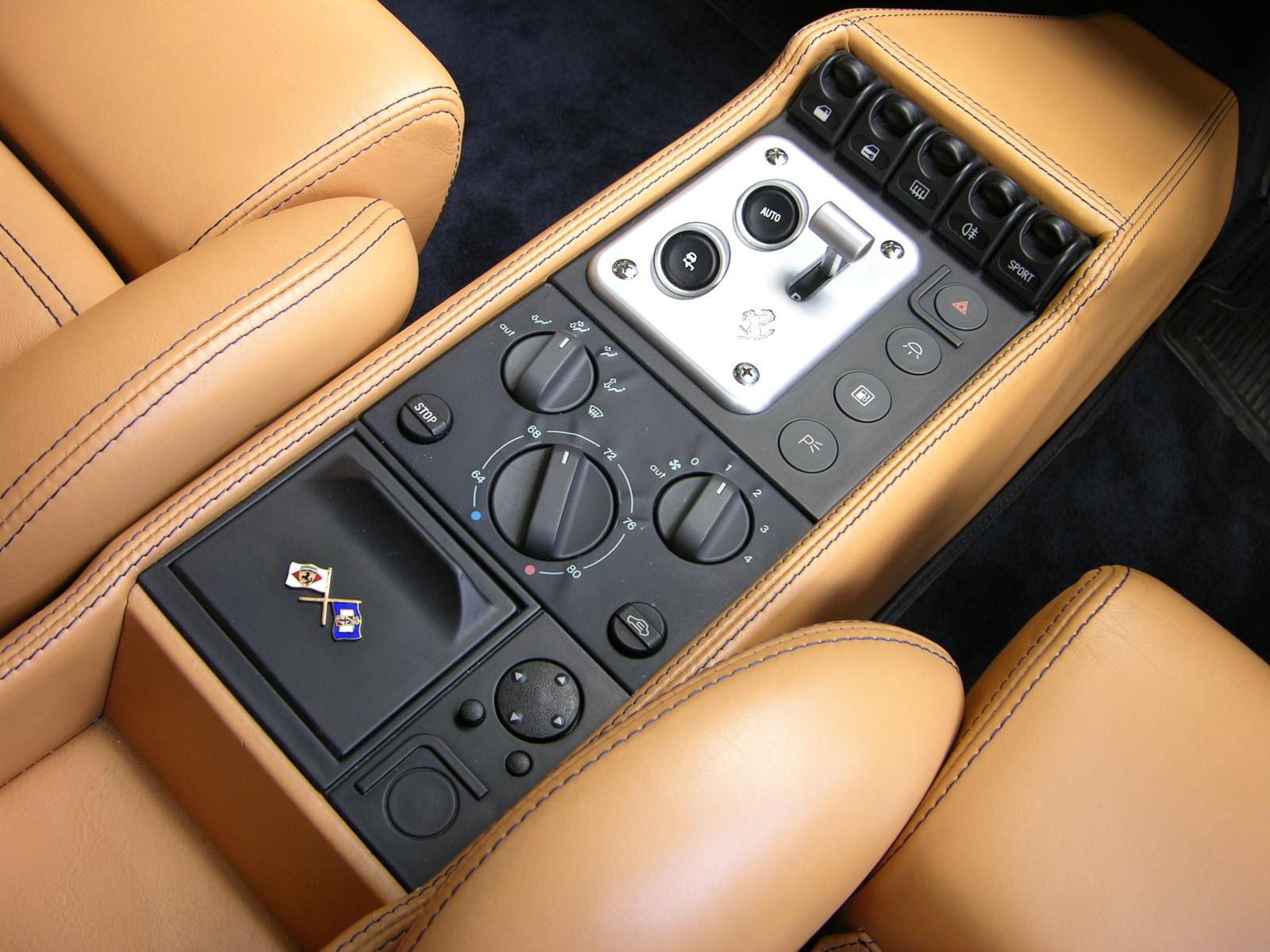 This car is for sale. Please contact us at or visit for more information.